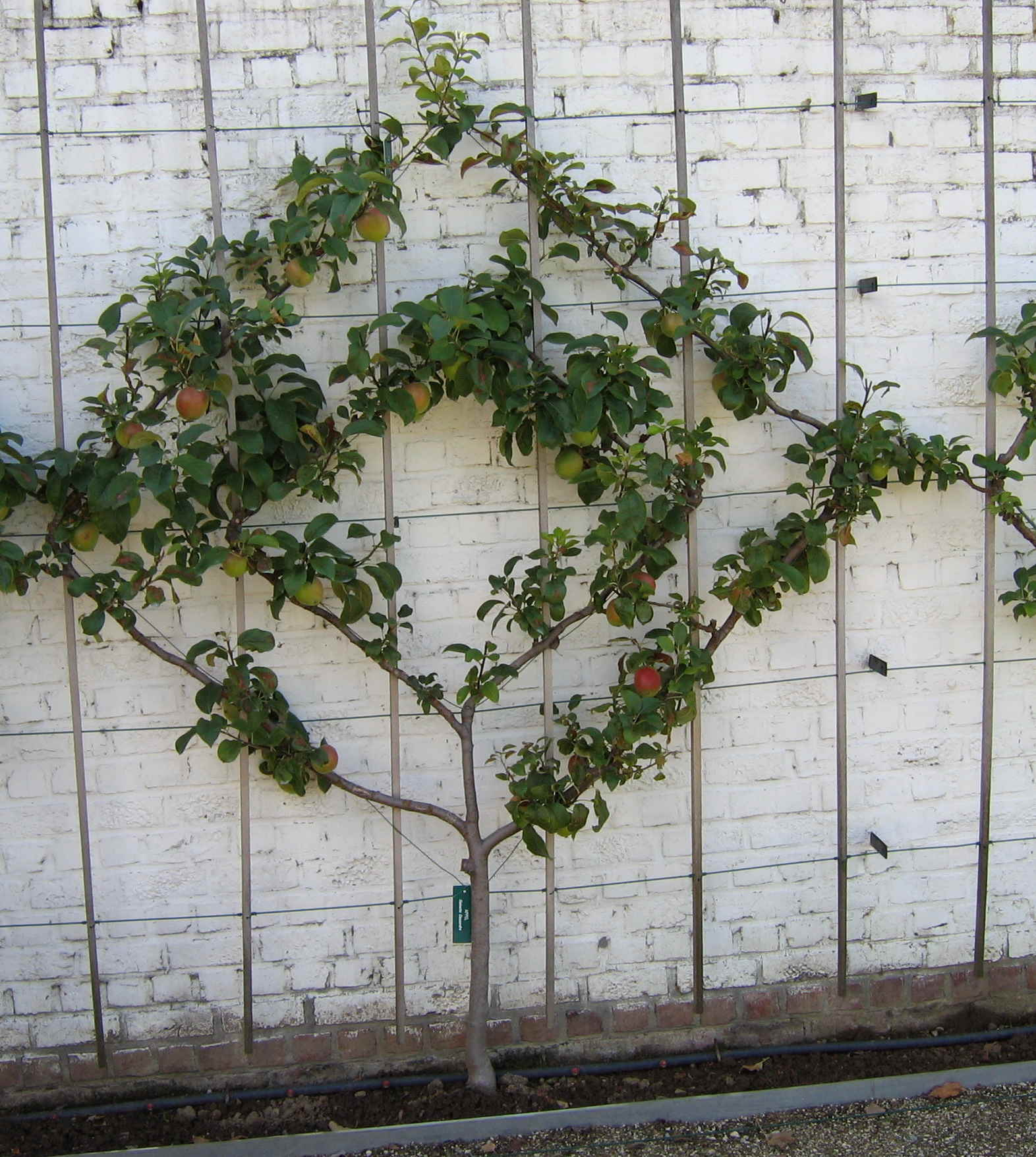 A picture of an espaliered fan-fruit tree form. The picture was taken at a fruittreeform-test site near the castle of Gaasbeek.